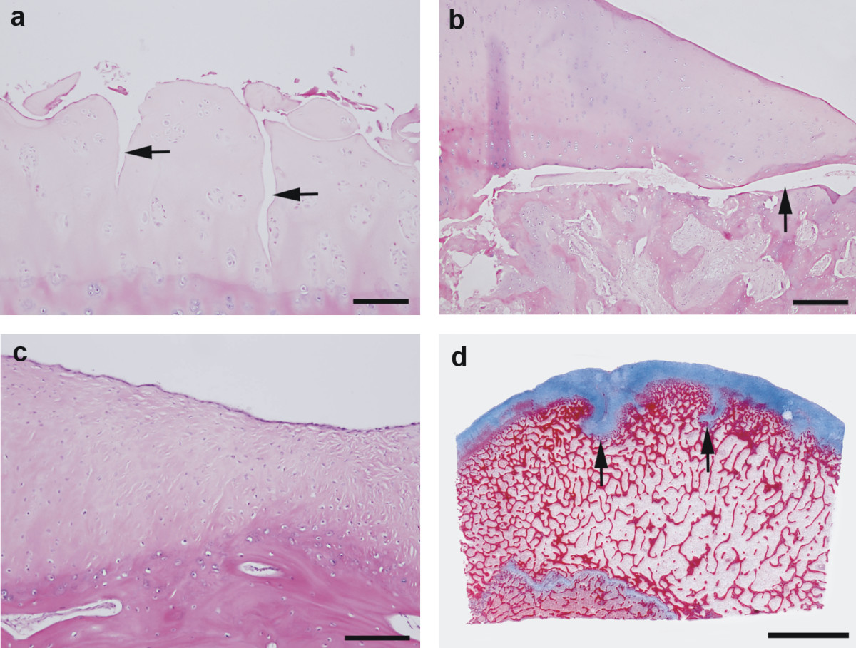 Template for histological classification of joint lesions in sows. a: Superficial cartilage erosions (arrows) of variable thickness are present. Articular cartilage of the medial humeral condyle. Haematoxylin and eosin. Bar = 100 μm. b: Typical osteocondrotic lesion in the form of osteochondritis dissecans (arrow). Articular cartilage of the lateral humeral condyle. Haematoxylin and eosin. Bar = 200 μm. c: Fibrous tissue and fibrocartilage are filling out a defect of the articular cartilage. Articular cartilage of the medial humeral condyle. Haematoxylin and eosin. Bar = 125 μm. d: Infoldings of thickened (retained) articular cartilage are present (arrows). Articular cartilage and subchondral bone of the medial humeral condyle. Masson's Trichrome. Bar = 5 mm. Kirk et al. Acta Veterinaria Scandinavica 2008 50:5